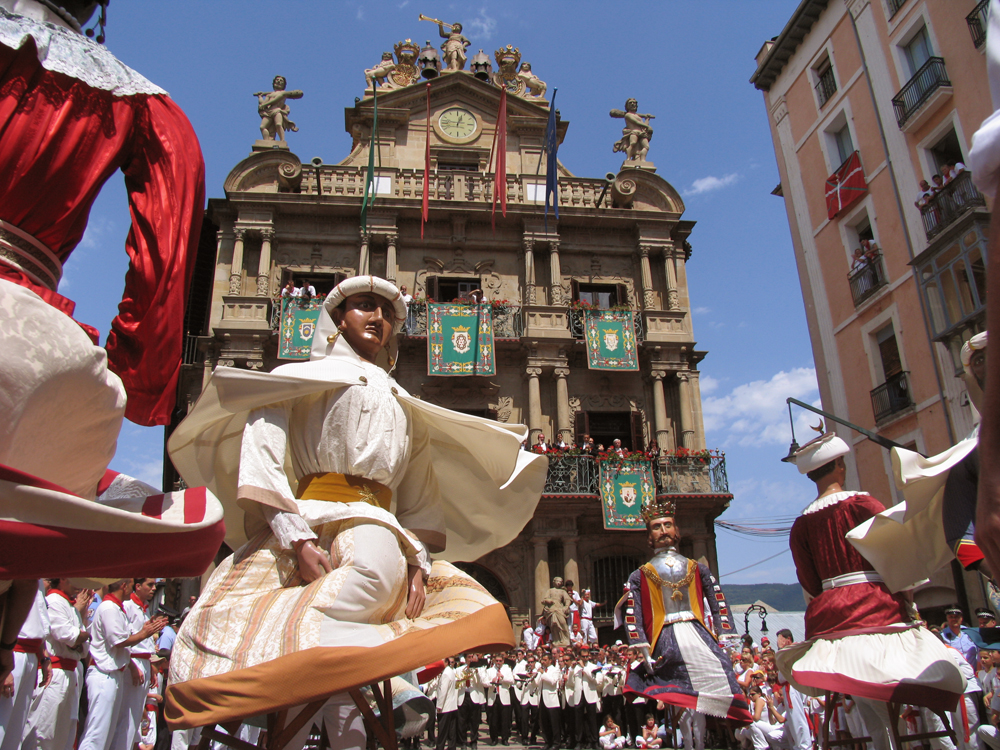 gigants dancing